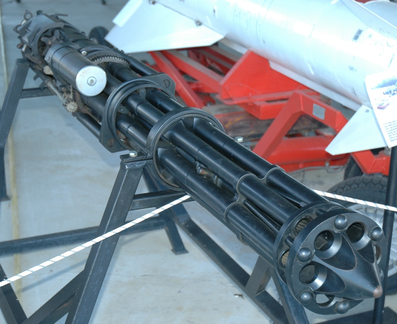 Soviet GSh-6-30 six-barrelled, Gatling-style rotary cannon